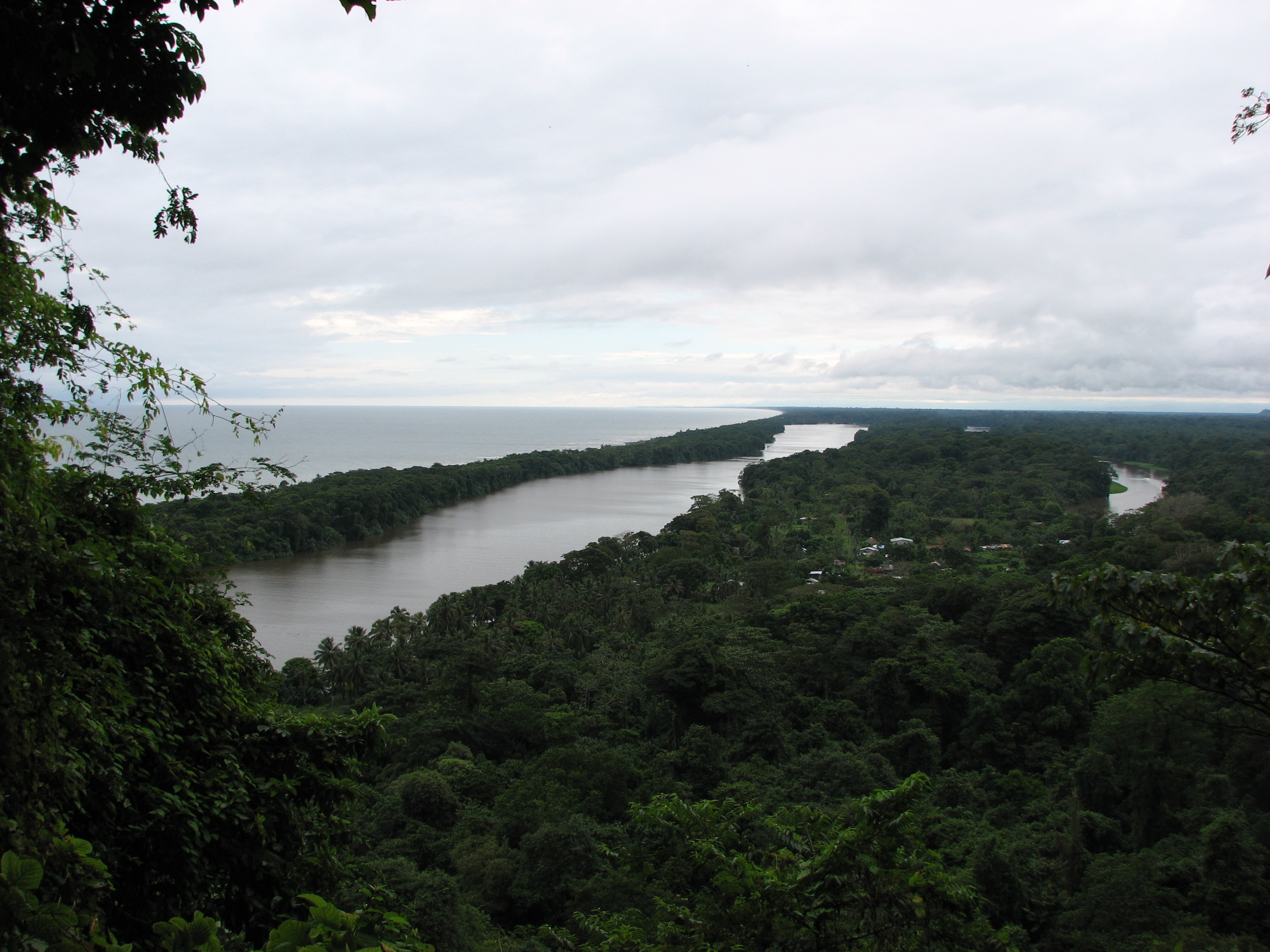 Palm forest and Atlantic coast Mangroves — in Tortuguero National Park, northeastern Costa Rica. Of the Isthmian-Atlantic moist forest ecoregion, of the Tropical and subtropical moist broadleaf forests biome.